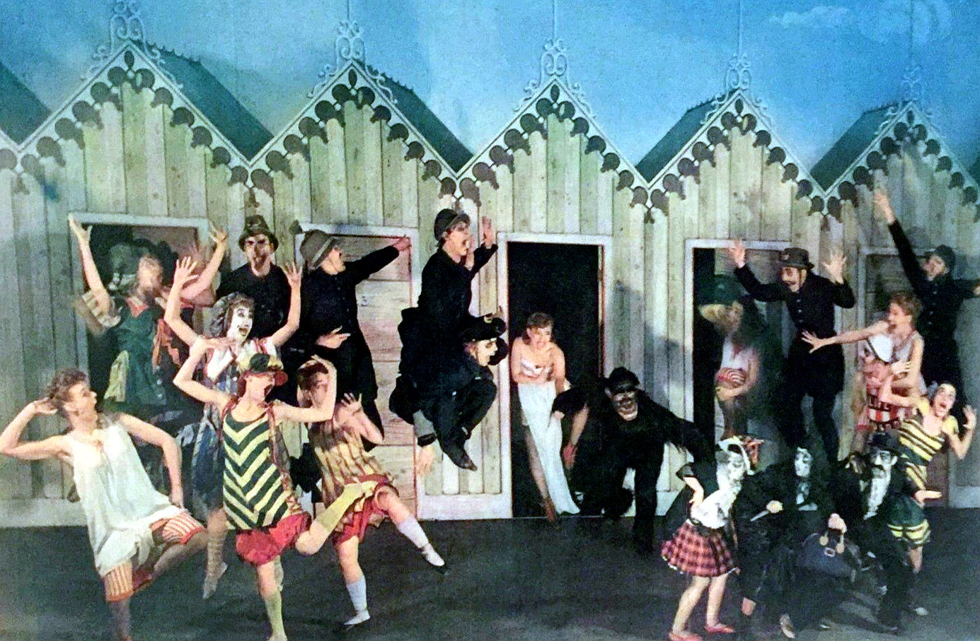 Photo of a scene from the Broadway musical High Button Shoes from a 1948 New York Sunday News magazine.